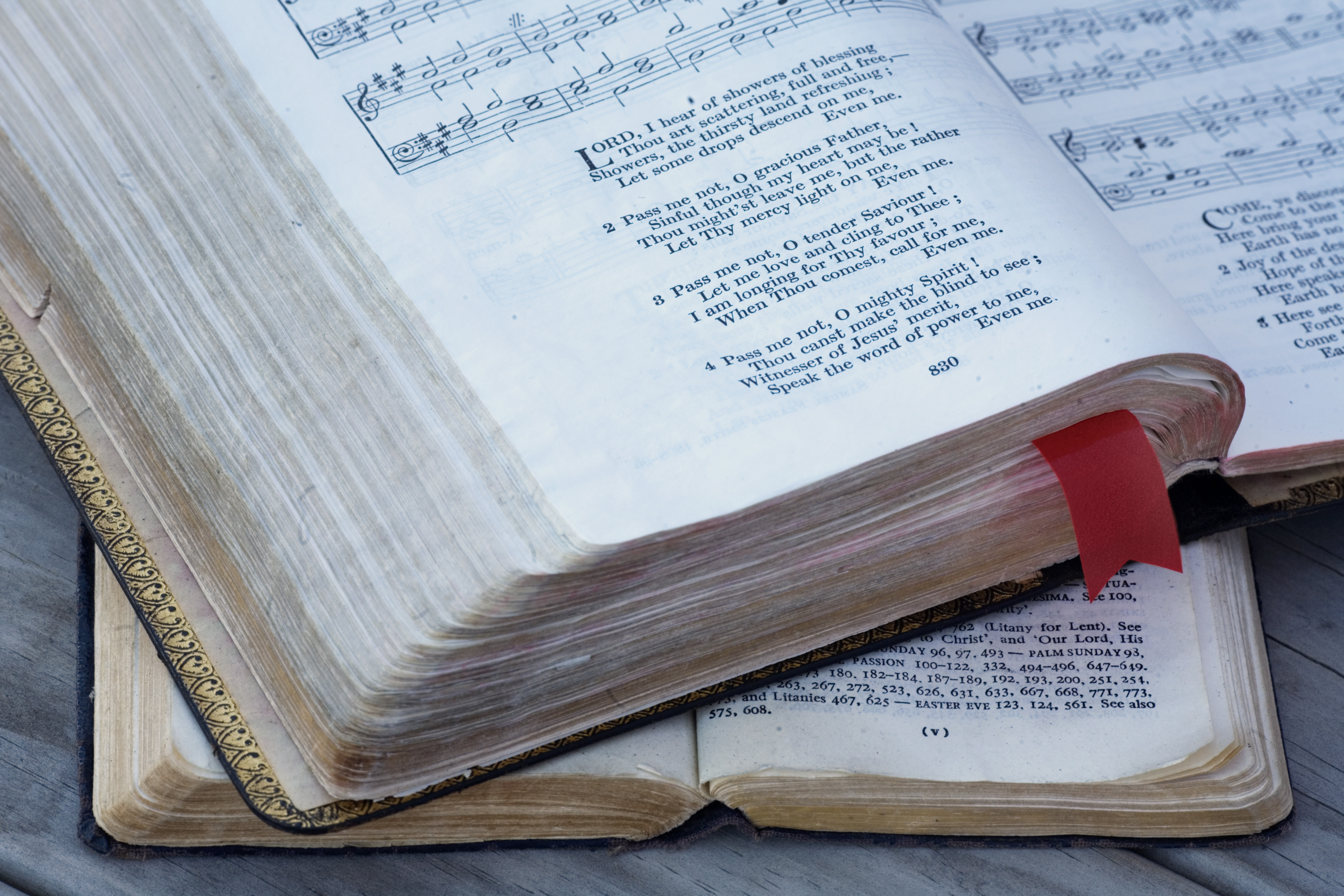 Church songbook. New Zealand, 2006